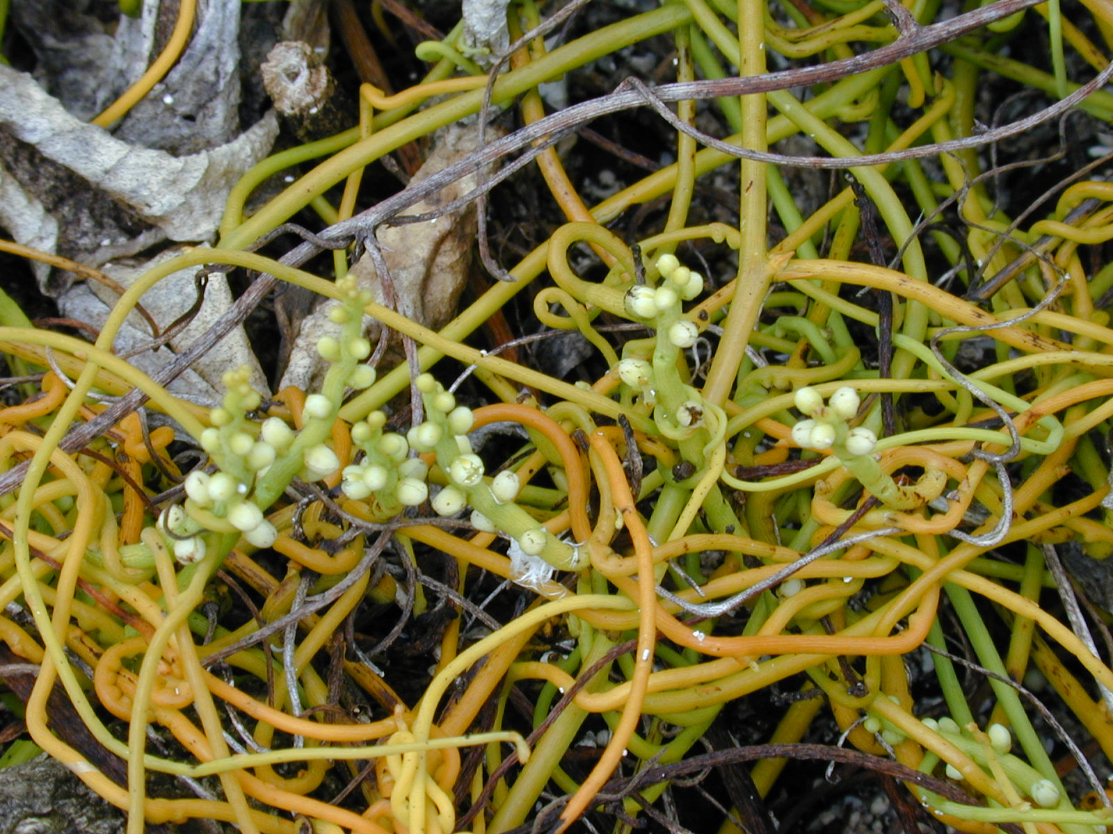 Cassytha filiformis (flowers). Location: Kure Atoll, Inland